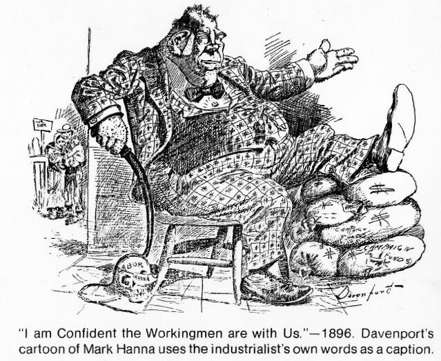 Davenport cartoon showing Mark Hanna 1896 election. New York Journal